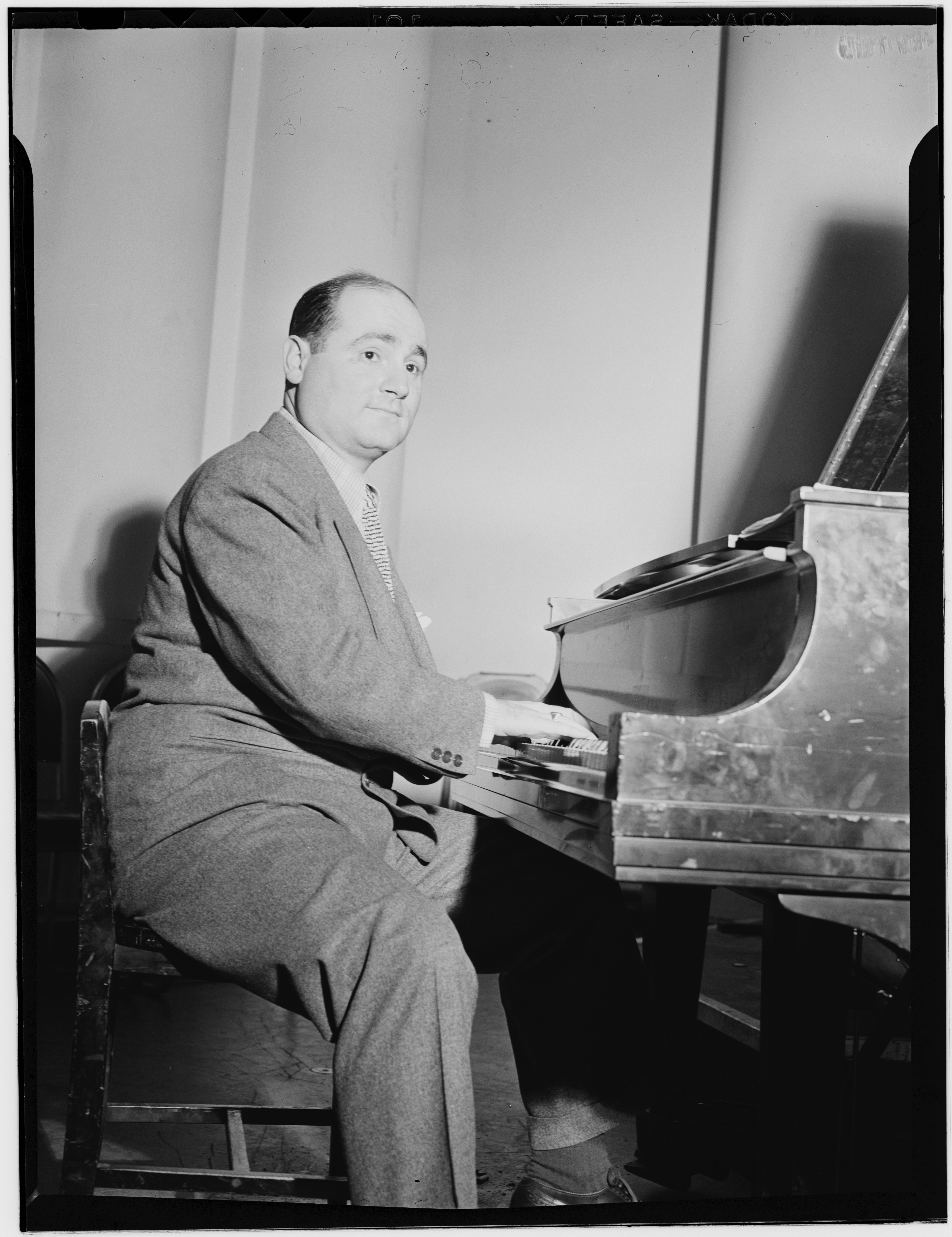 Jerry Gray. Photography by William P. Gottlieb